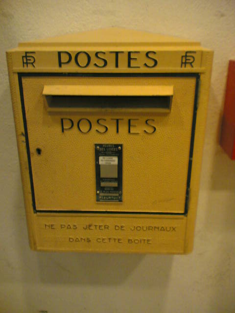 Photo by Rhian